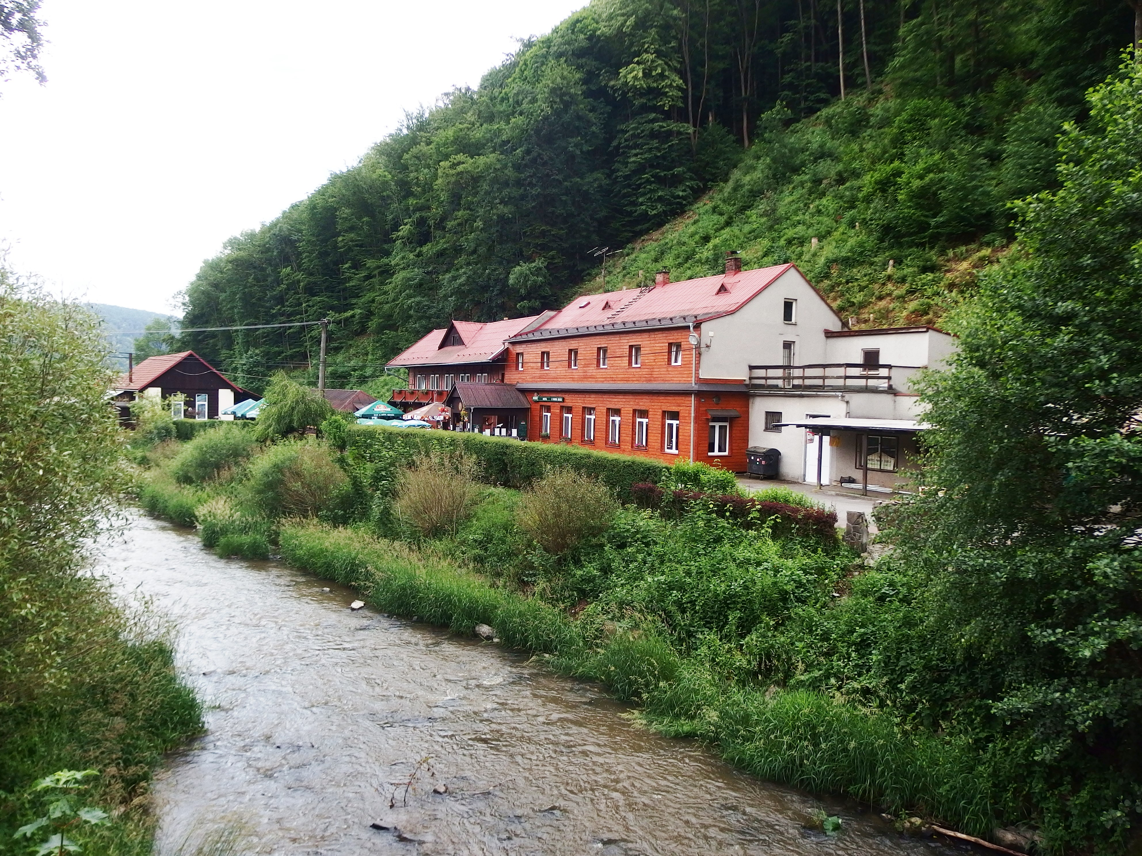 Odry, Nový Jičín District, Czech Republic, part Klokočůvek.